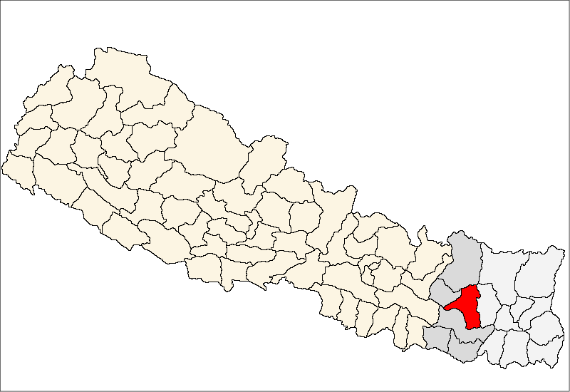 FrenchCarte de localisation dudistrict de Khotang(wp-FR),au Népal (wp-FR).EnglishLocation map ofKhotang District(wp-EN),in Nepal (wp-EN).